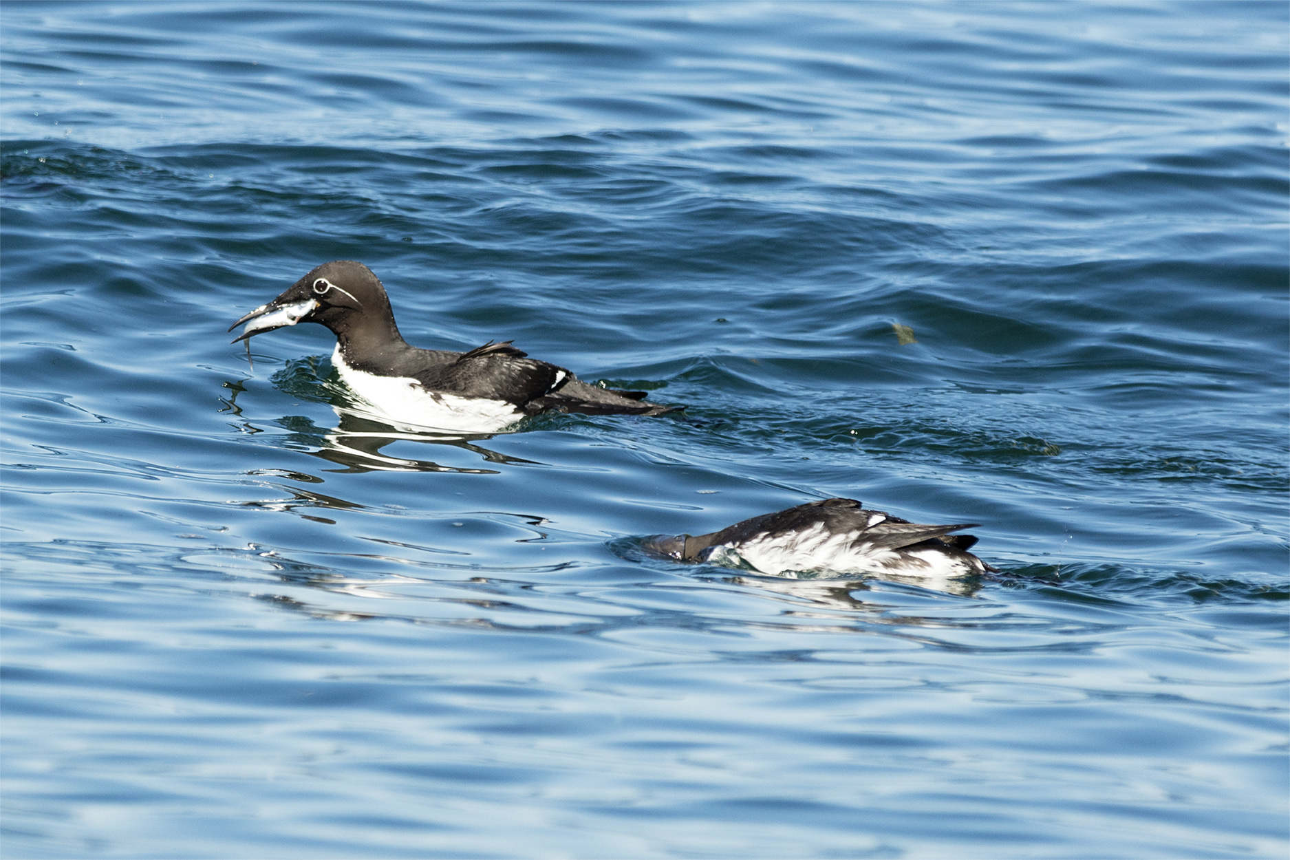 Common murre (or guillemot) at Bear Island (located in the western Barents Sea), the southernmost island of the Svalbard Archipelago.